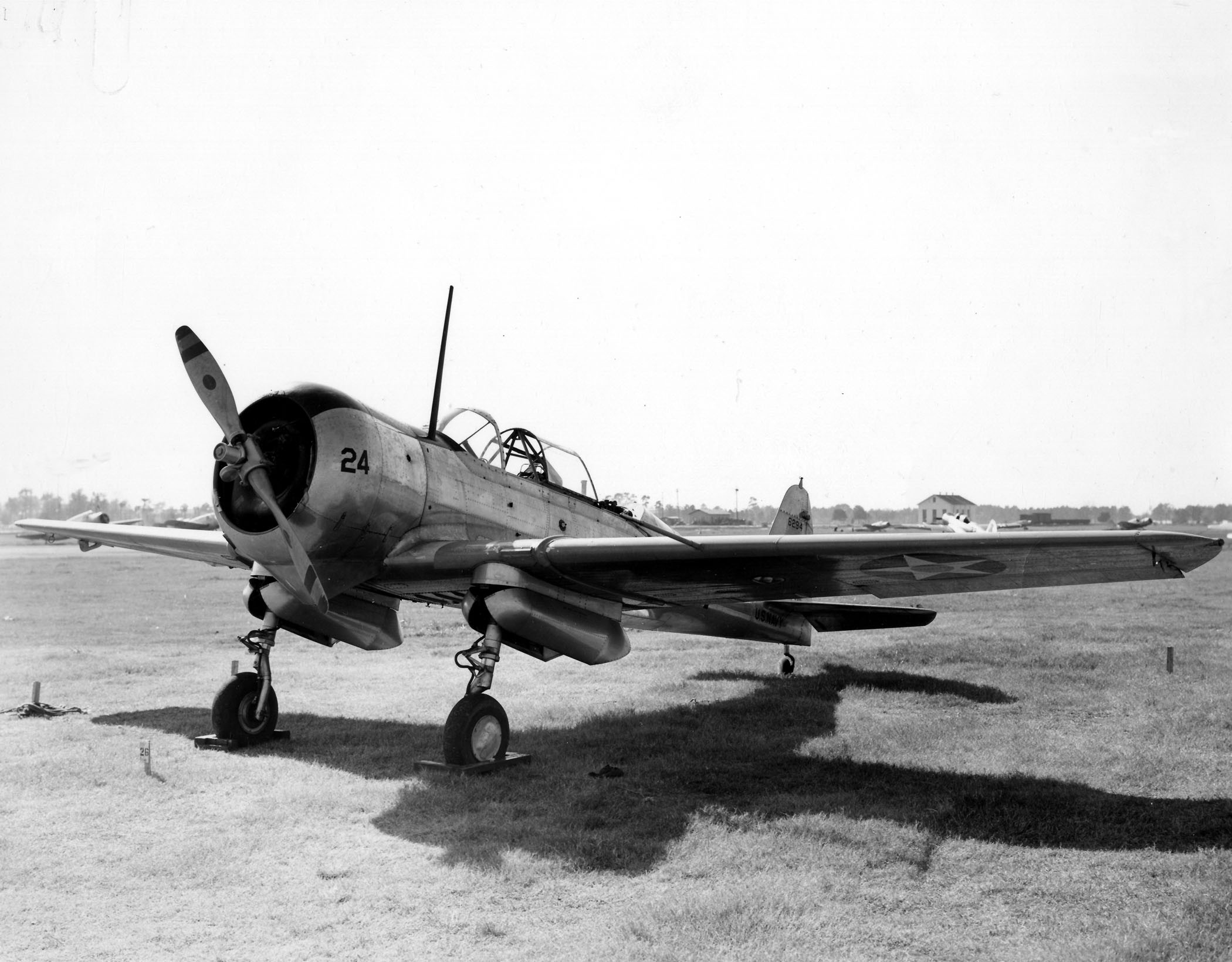 A U.S. Navy Curtiss SNC-1 Falcon trainer (BuNo 6294) at Naval Air Station Jacksonville, Florida (USA), on 8 January 1942. Original caption: The "Falcon" was used for intermediate pilot instruction. This picture, taken Jan. 8, 1942, shows the plan in all aluminum. These aircraft were transferred to Naval Auxiliary Air Field Green Cove Springs, Fla. from 1942-44. This aircraft was powered by a 420 horsepower Wright R-974 engine."